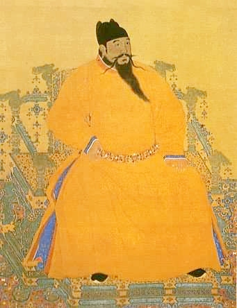 Yongle Emperor portrait, digitally altered by user Arilang1234